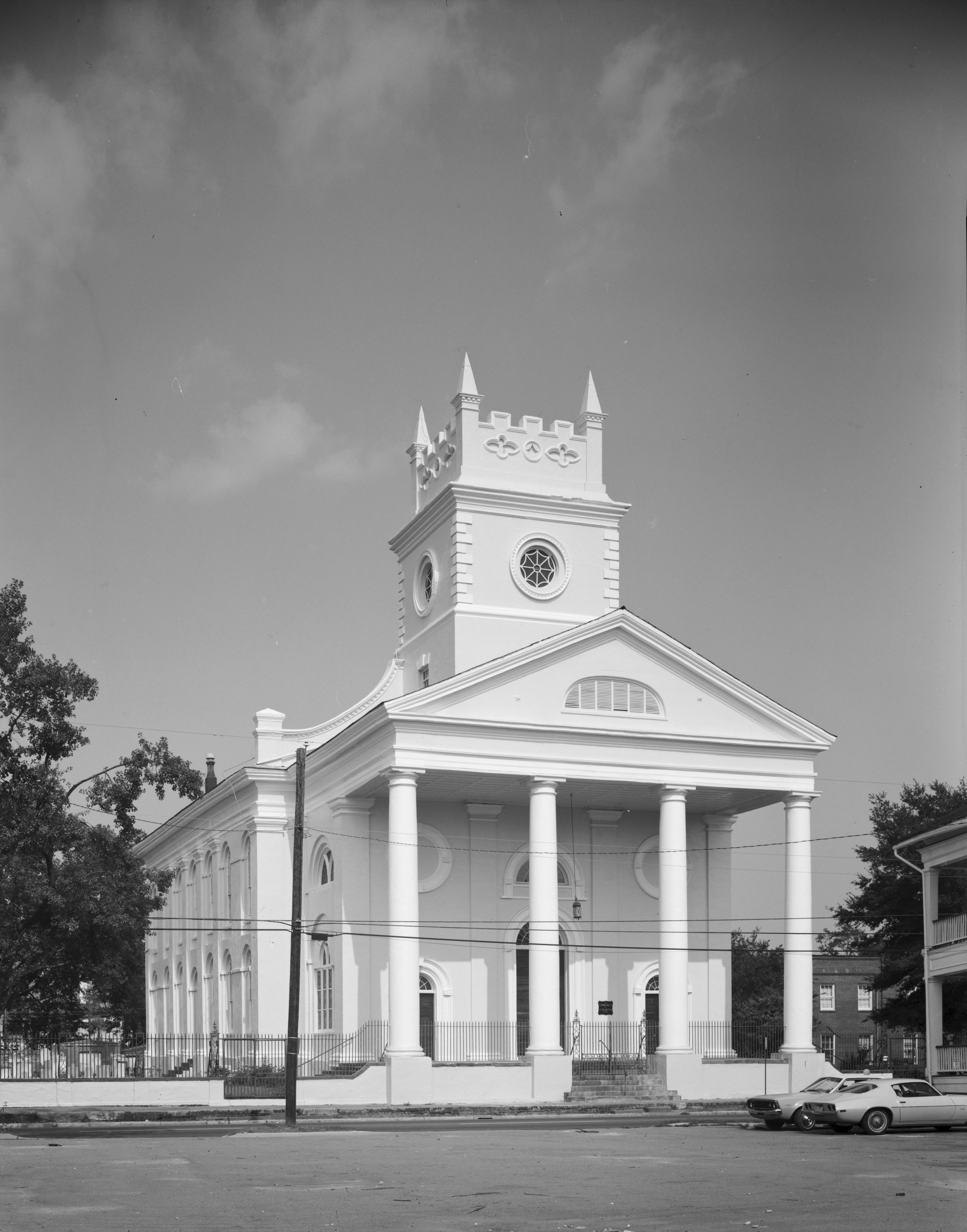 Cathedral of St. Luke and St. Paul, 126 Coming St. (Charleston) (Cropped) (cathedral of the Episcopal Diocese of South Carolina)